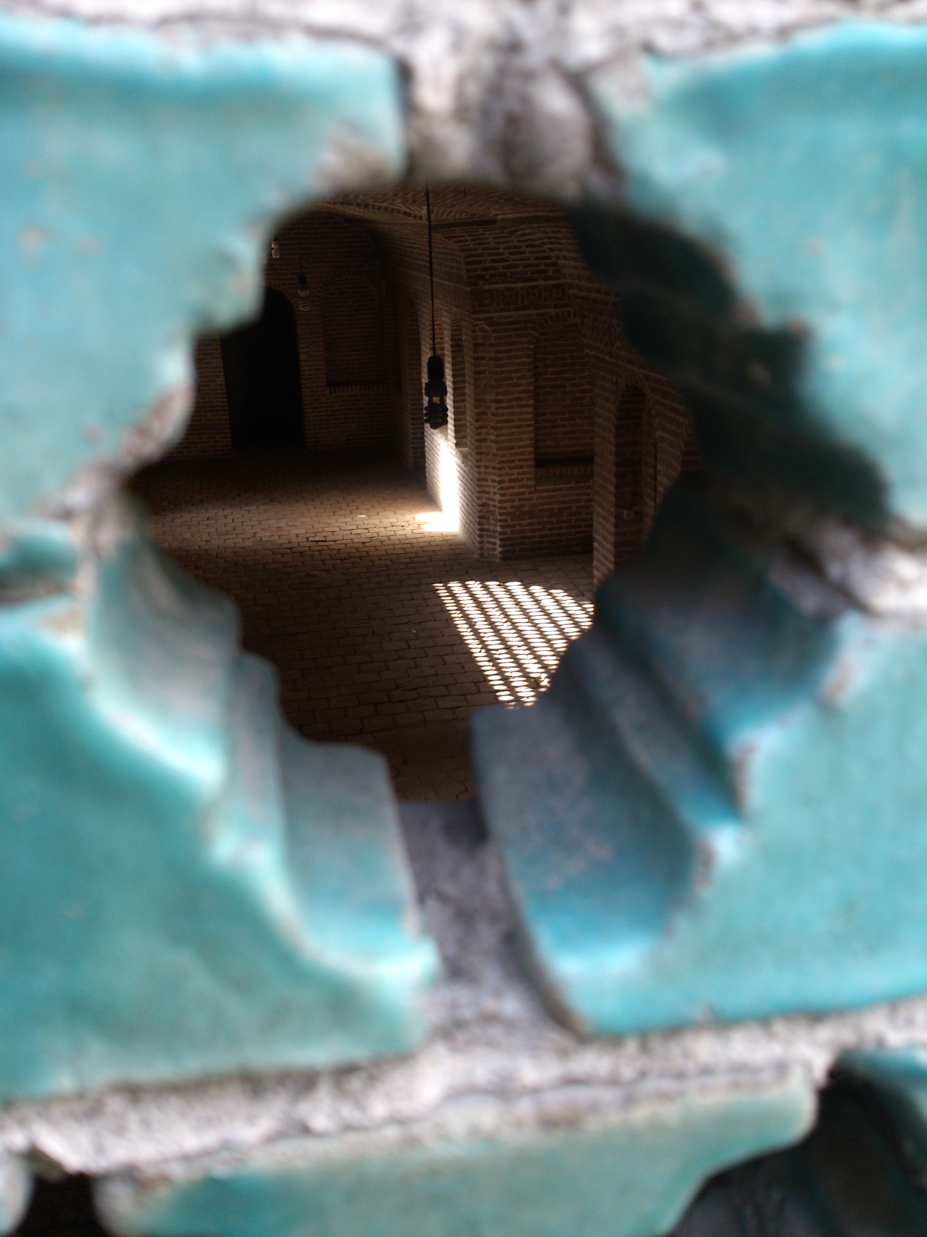 Aminis Historic House (hosseinieh)